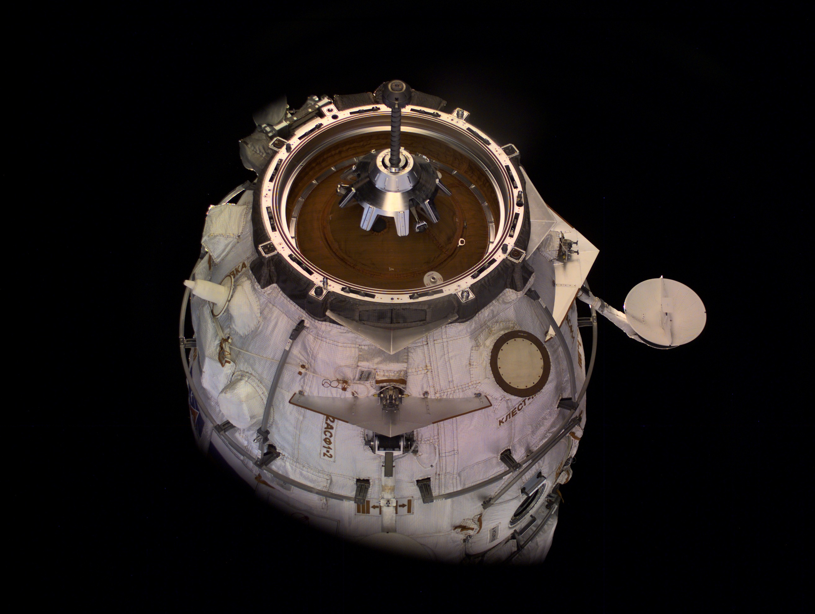 The Russian Docking Compartment, named Pirs (the Russian word for pier), is only seconds away from docking with the International Space Station (ISS). One of the Expedition Three crew members, using a digital still camera with a 35mm lens, recorded the image from onboard the orbital outpost. The vehicle was launched on September 14, 2001 and docking occurred on September 16.